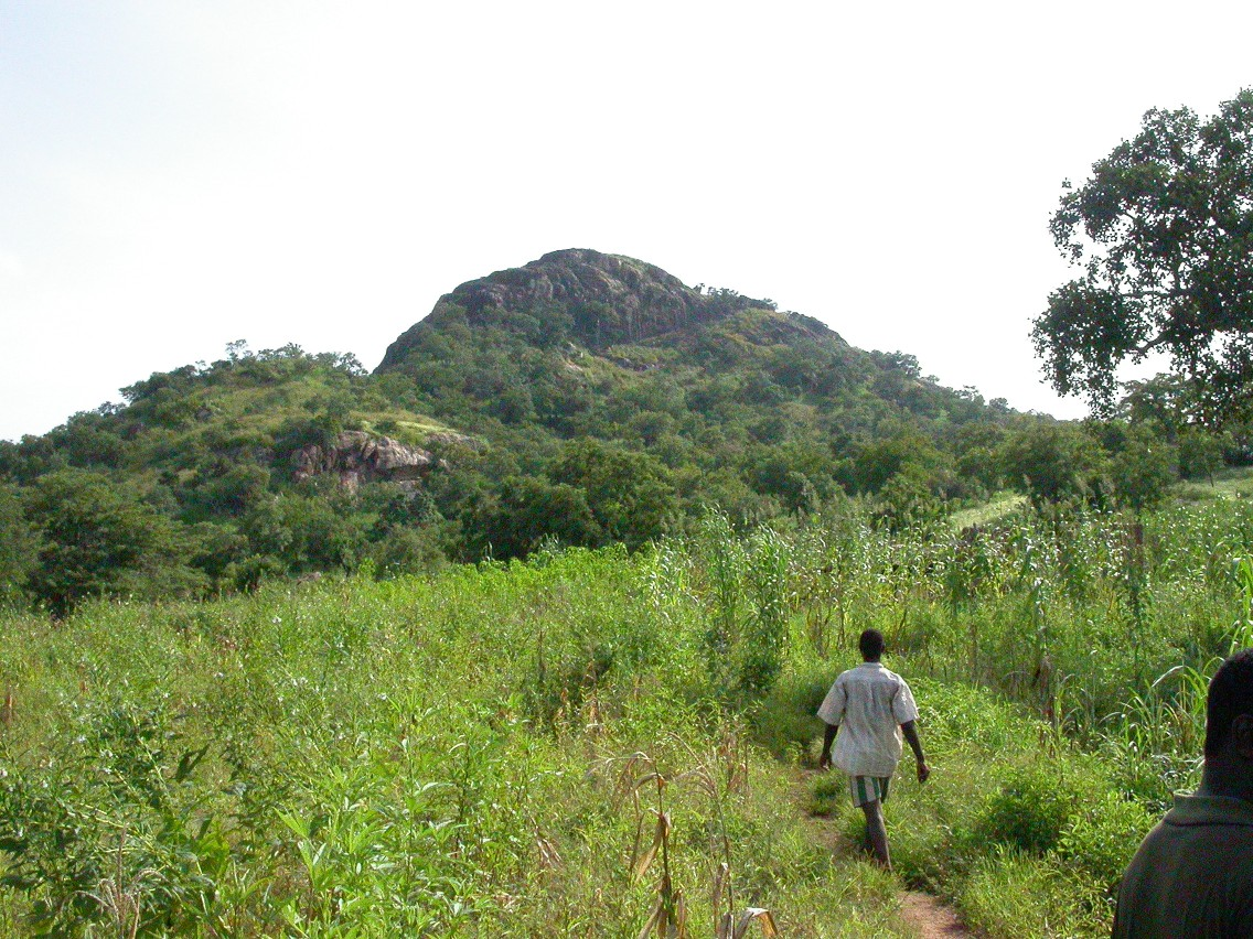 Pic de Nahouri near Pô in Burkina Faso